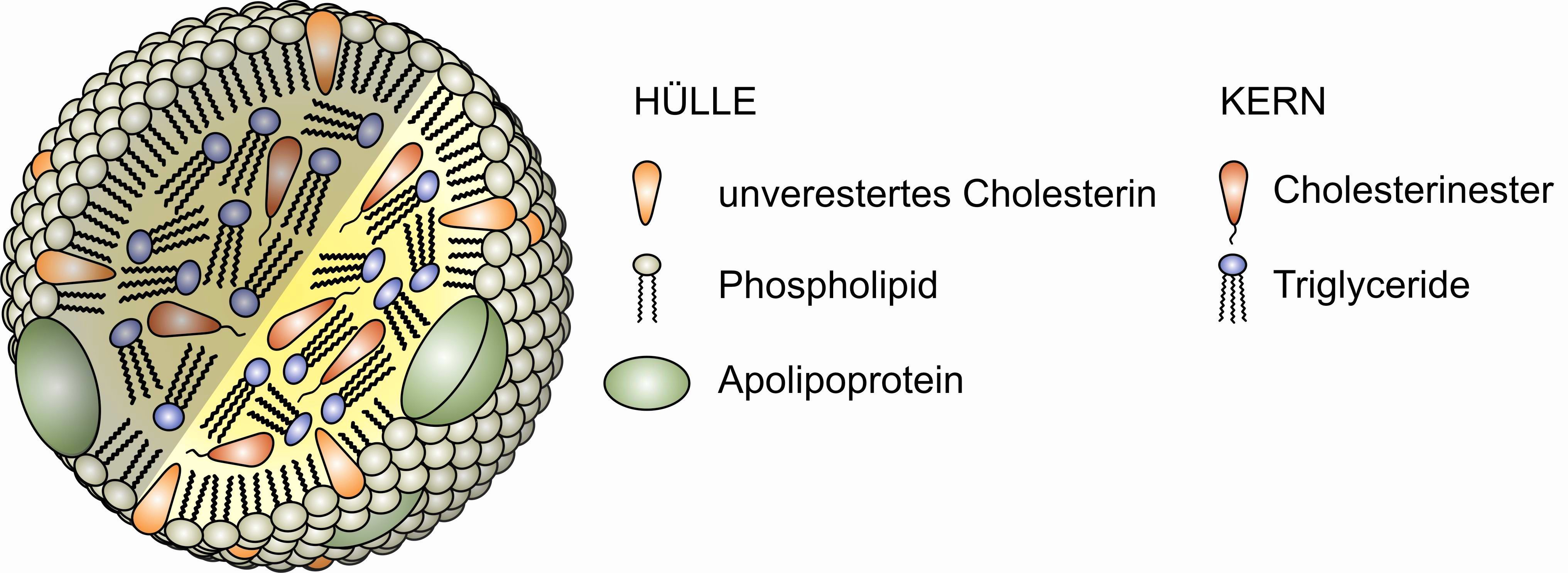 Lipoprotein particles are composed of a lipid core containing cholesteryl esters and triglycerides, and a surface coat of phospholipids, unesterified cholesterol and apolipoproteins.